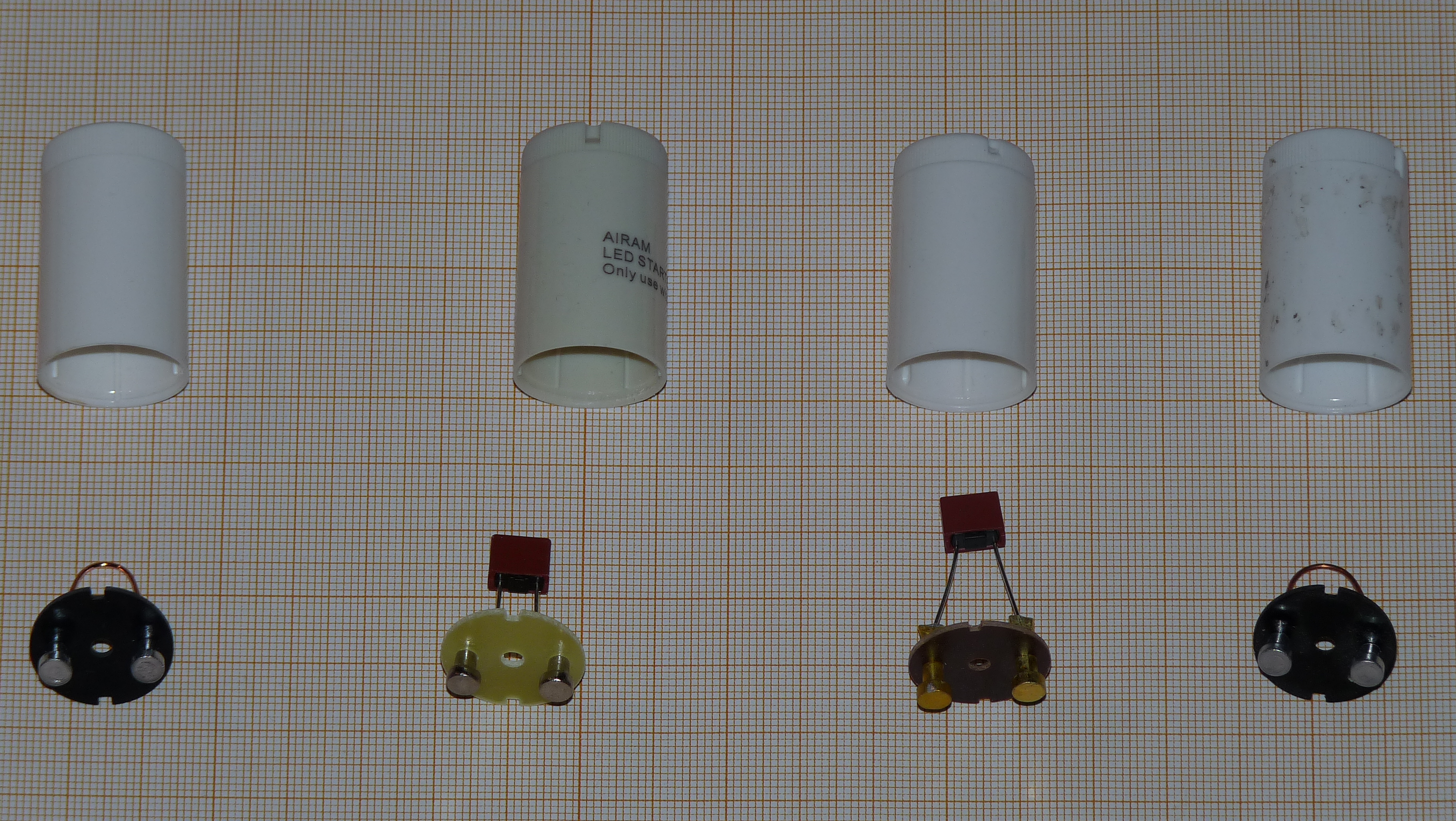 Dummy starters for LED light bulbs